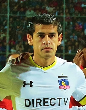 Julio Barroso